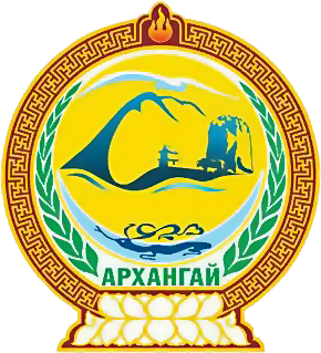 Coat of Arms of Arkhangai Aimag in Mongolia. It starts to appear on photographs in 2014, so it was probably introduced that year. No official blason found. Taikhar Chuluu (pituresqe rock) Khorgo (extinct volcano) A Yak A monastery building A body of water In the water(?), a deer reminiscent of those found on prehistoric stone carvings, with its antlers forming the distorted numerals "1923". Green leaves The name "Arkhangai" in cyrillic letters A circular frame with crossing meanders Based on a lotos A three-tongued flame on top